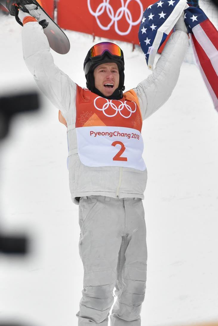 Shaun White 2018 Winter Olympics